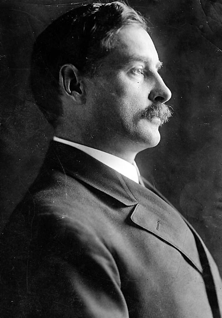 Bain News Service,, publisher. George Wharton Pepper circa 1913 [no date recorded on caption card] 1 negative : glass ; 5 x 7 in. or smaller. Notes: Title from unverified data provided by the Bain News Service on the negatives or caption cards. Forms part of: George Grantham Bain Collection (Library of Congress). Format: Glass negatives. Repository: Library of Congress, Prints and Photographs Division, Washington, D.C. 20540 USA, General information about the Bain Collection is available at Persistent URL: Call Number: LC-B2- 2634-11